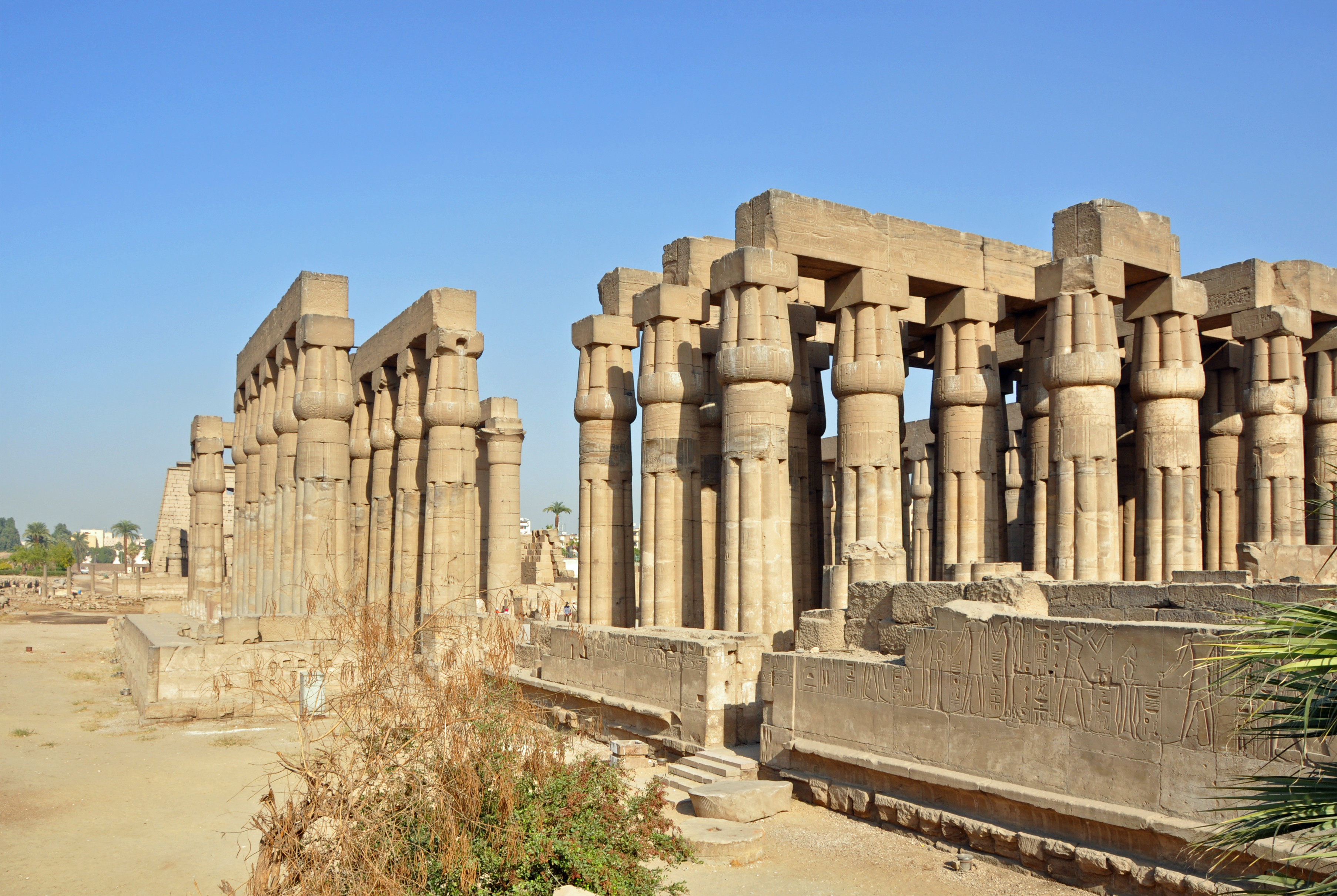 Luxor Temple, Egypt (detail)